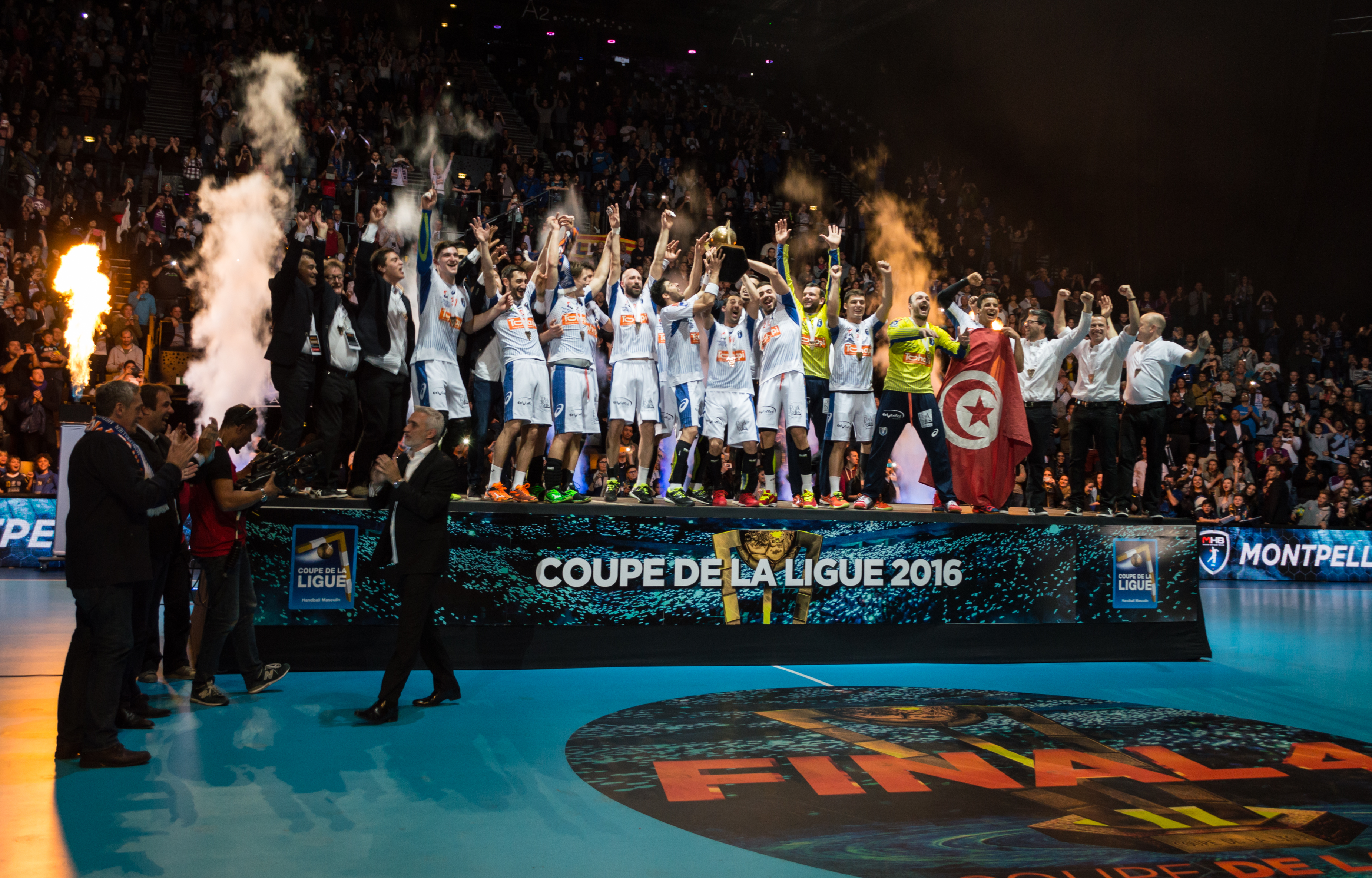 Handball League final between Montpellier (MHB) and Paris (PSG) at the Arena hall: Montpellier's victory.